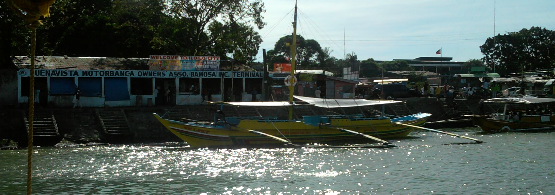 Pump boat to Buenavista, Guimaras at the terminal on the Iloilo River